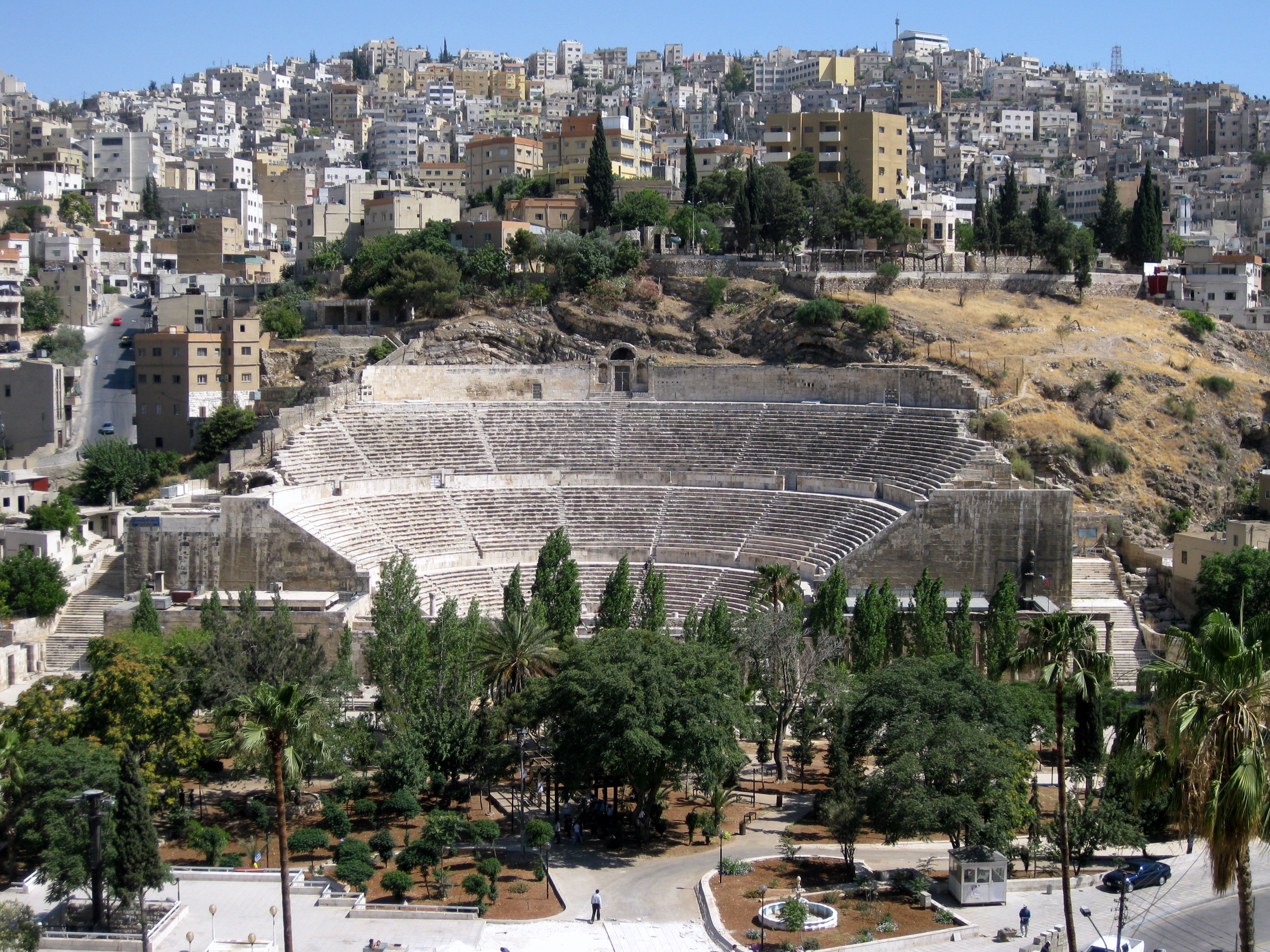 Roman Amphitheatre - East Amman (As seen from Citadel Mount)